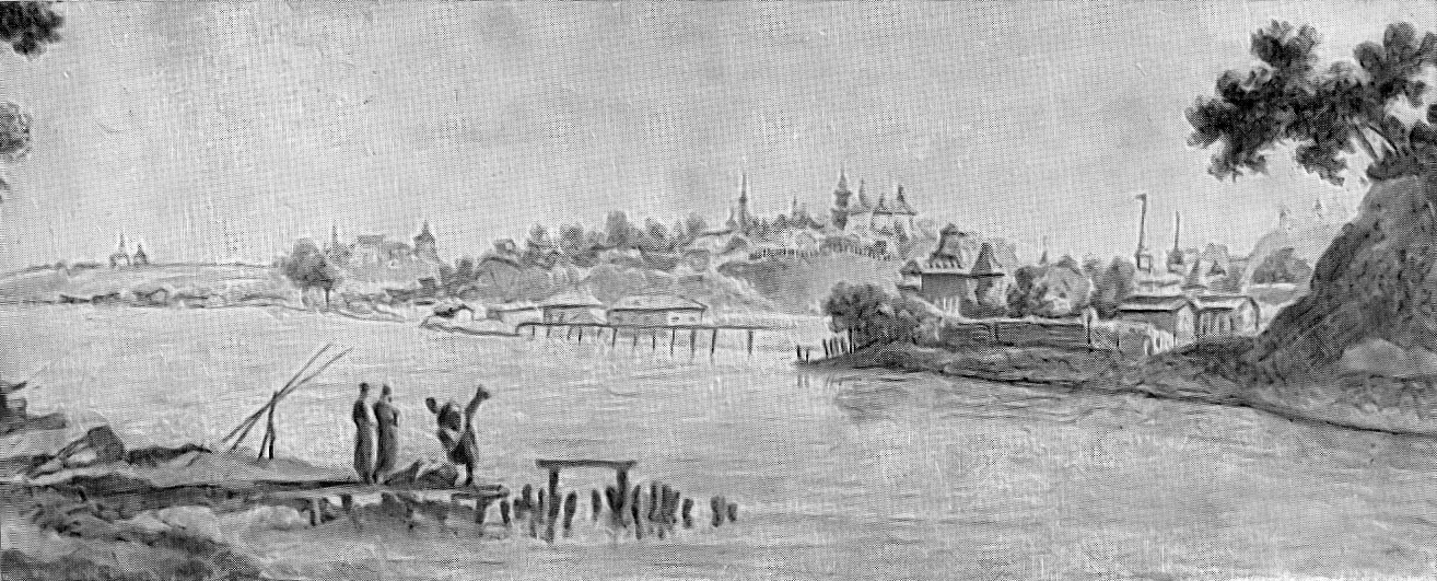 View of Kryčaŭ